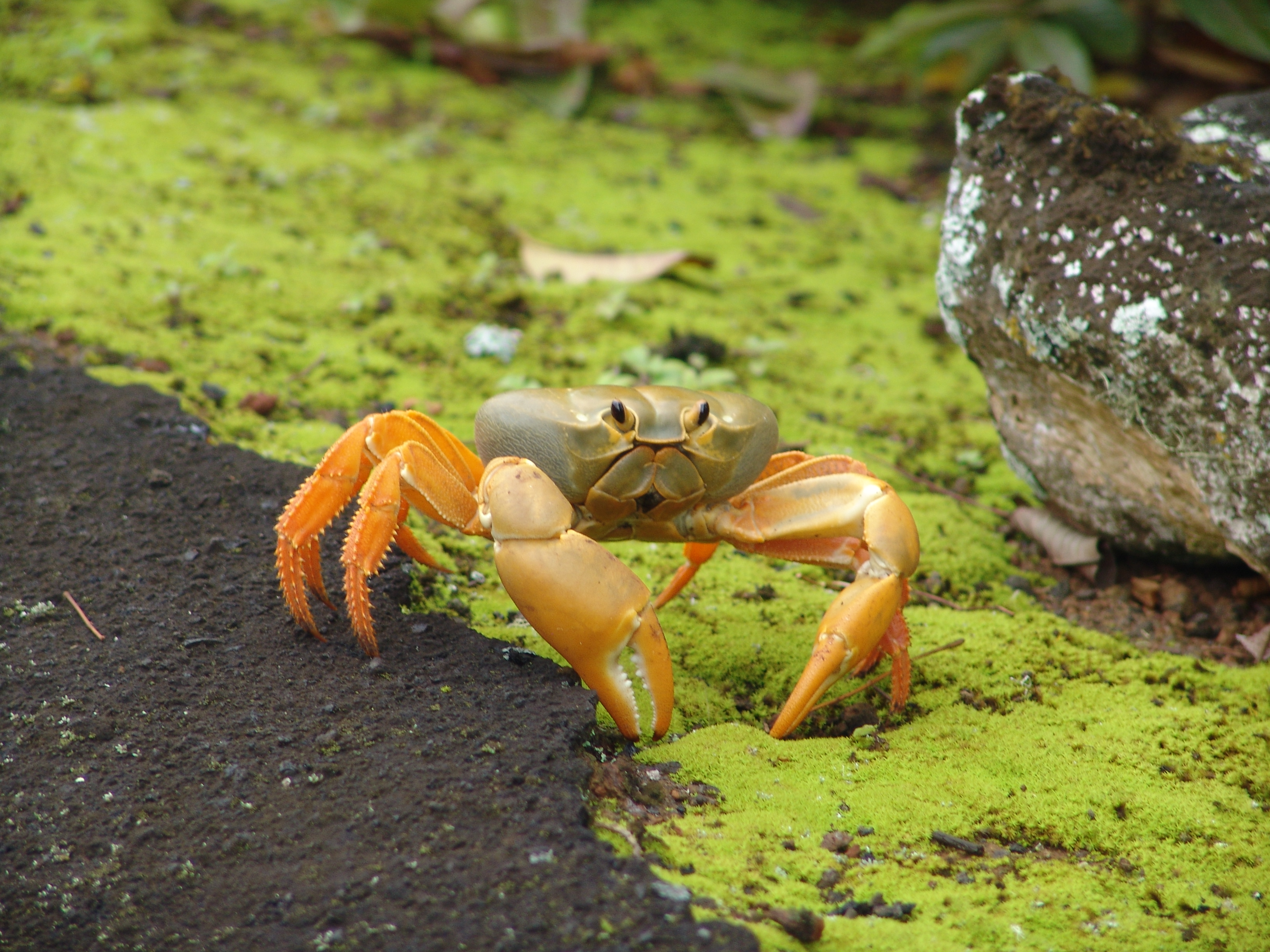 Yellow morph of the land crab Johngarthia lagostoma (= Gecarcinus lagostoma) on Ascension Island